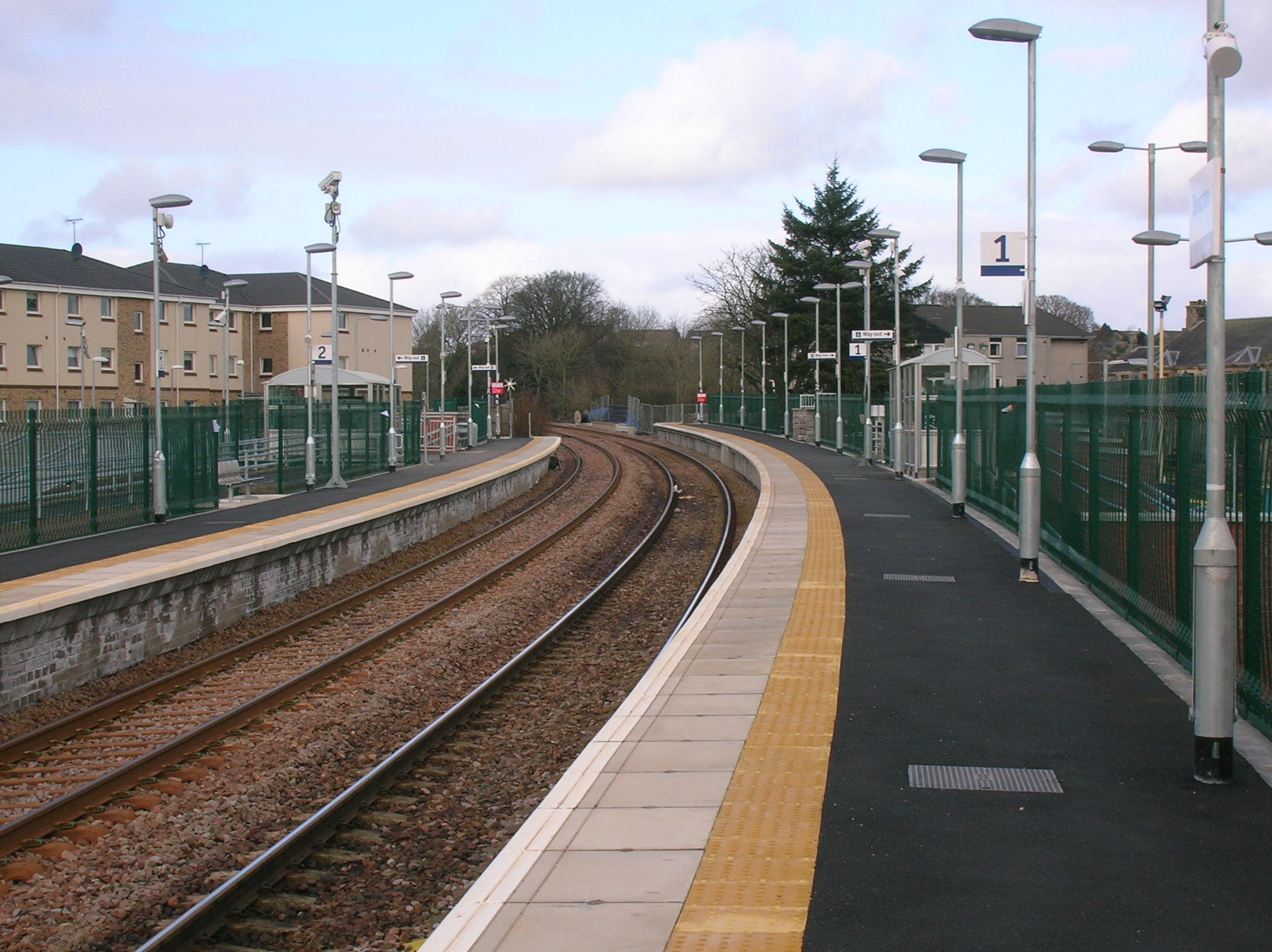 Stewarton railway station from Platform 1 looking towards Glasgow. North Ayrshire, Scotland.